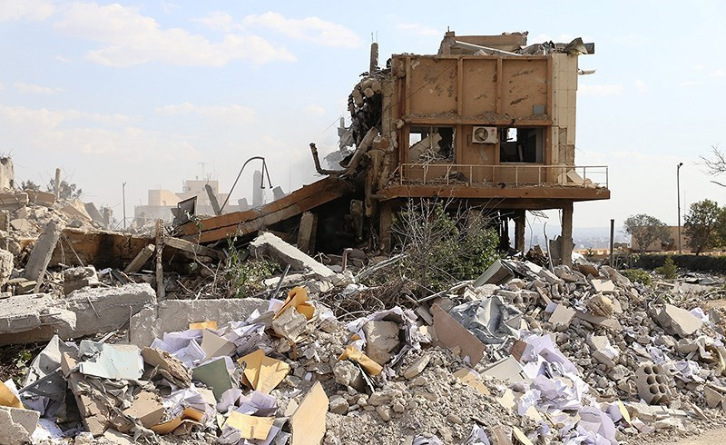 The ruins of the 2018 American-led bombing of Damascus and Homs